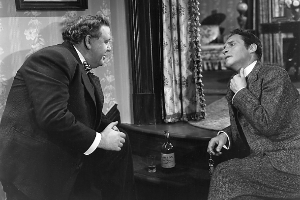 Publicity still of Charles Laughton and Henry Daniell in the 1944 film, The Suspect